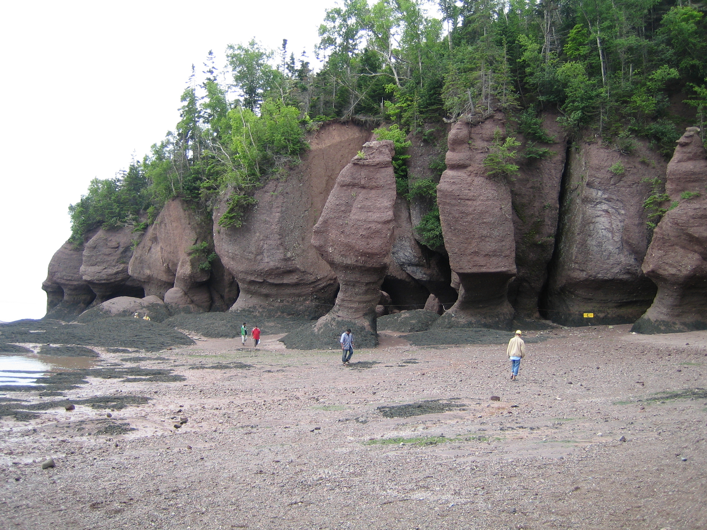 Low Tide Bay of Fundy.